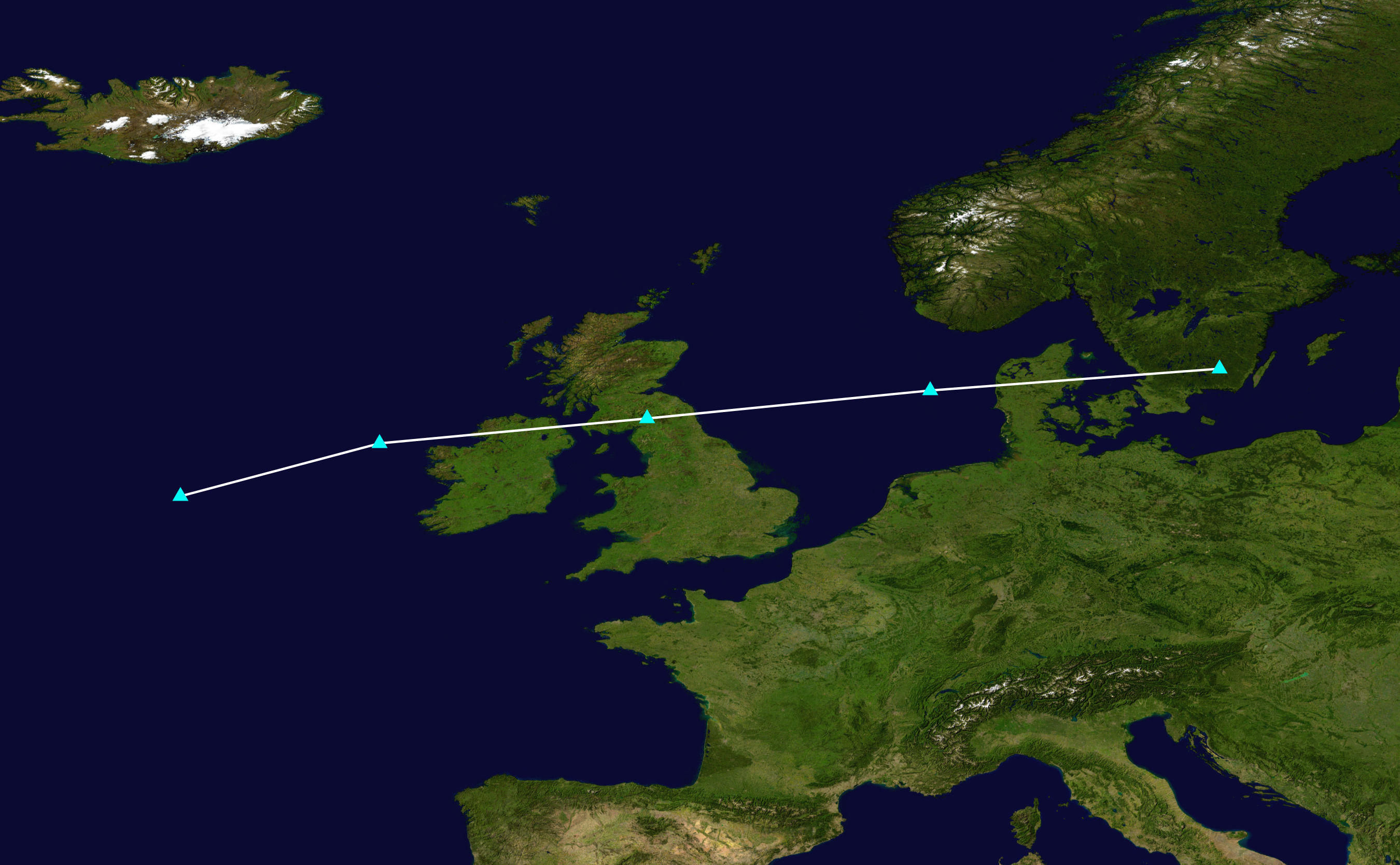 Track map of Storm Barney of the European windstorms of 2015. The points show the location of the storm at 6-hour intervals. The colour represents the storm's maximum sustained wind speeds as classified in the Beaufort wind scale (see below). Beaufort scale 1-7≤38 mph≤62 km/h 8-11 (gale-force)39–73 mph63–118 km/h 12 (hurricane force)≥74 mph≥119 km/h Unknown